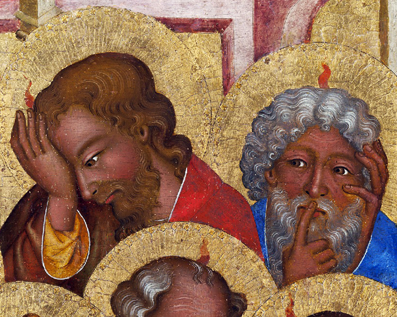 Hohenfurth Altarpiece - Descent of the Holy Spirit (detail 2), National Gallery in Prague